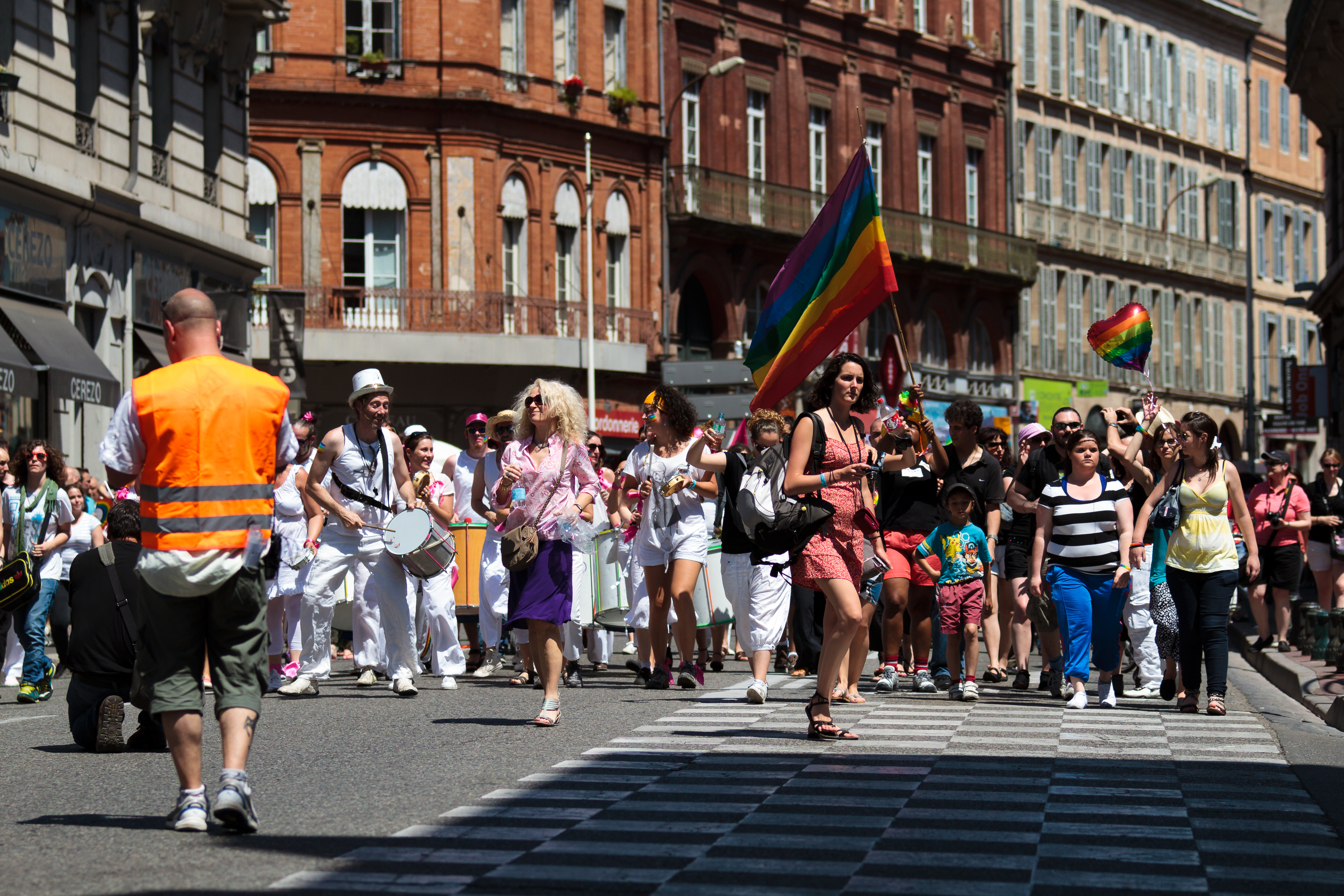 Picture taken during the Gay Pride in Toulouse on June 16th, 2012